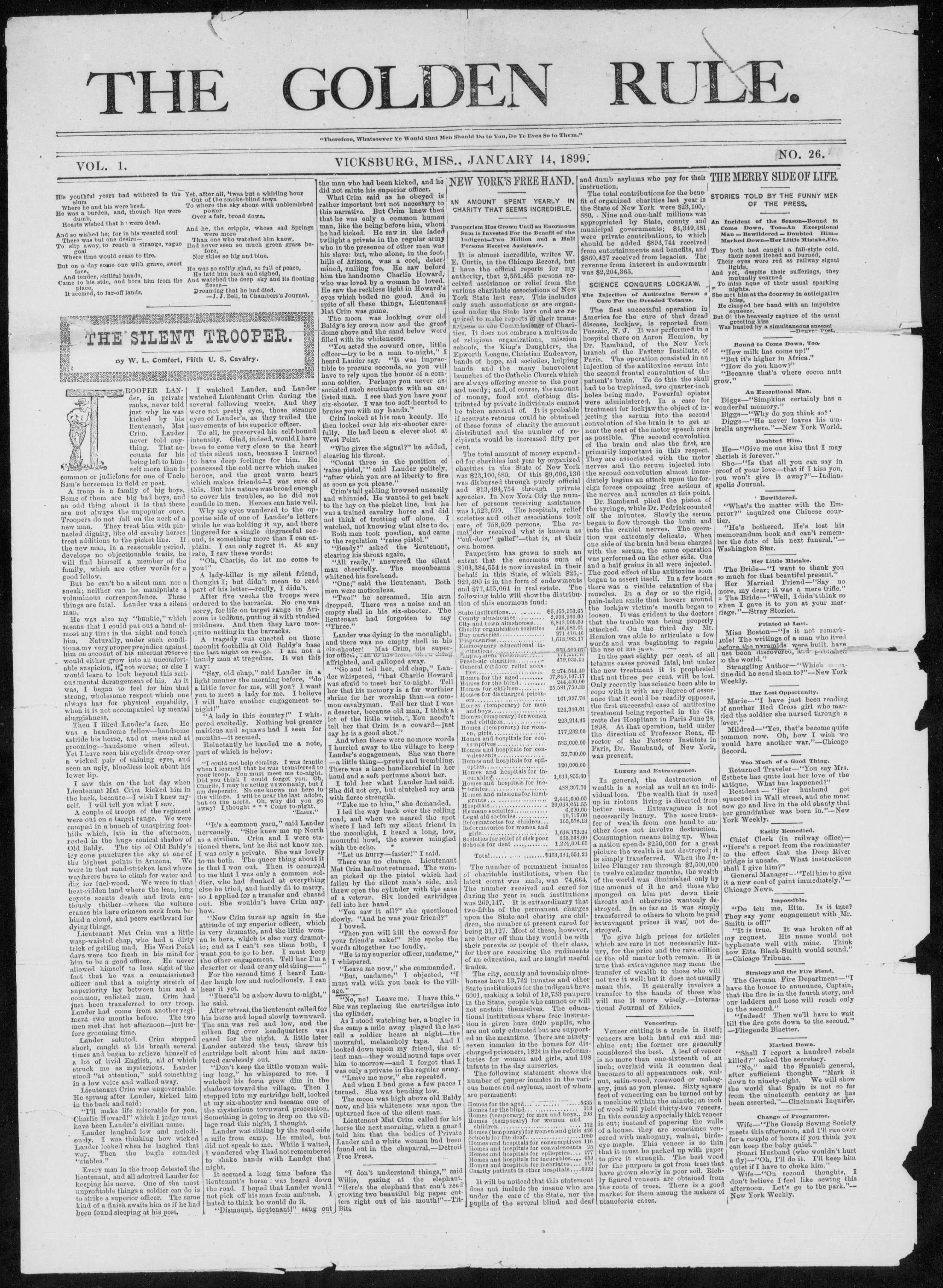 Front page of a surviving issue of The Golden Rule, published in Vicksburg, Mississippi and dated January 14, 1899. Top stories include a report of the first US operation to cure tetanus, by Dr. Rambaud of the Pasteur Institute at Passaic, New Jersey.